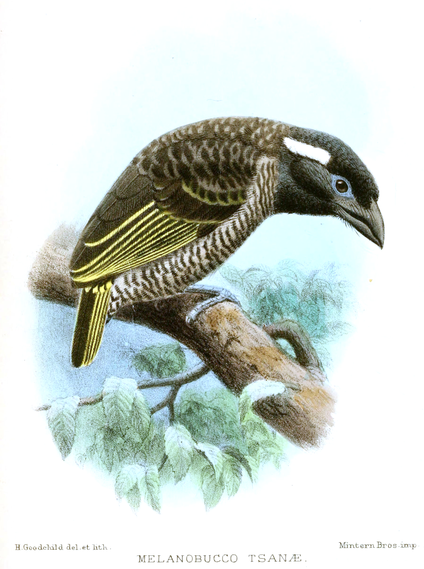 Melanobucco tsanae = Lybius undatus thiogaster (possibly an immature without the red front)